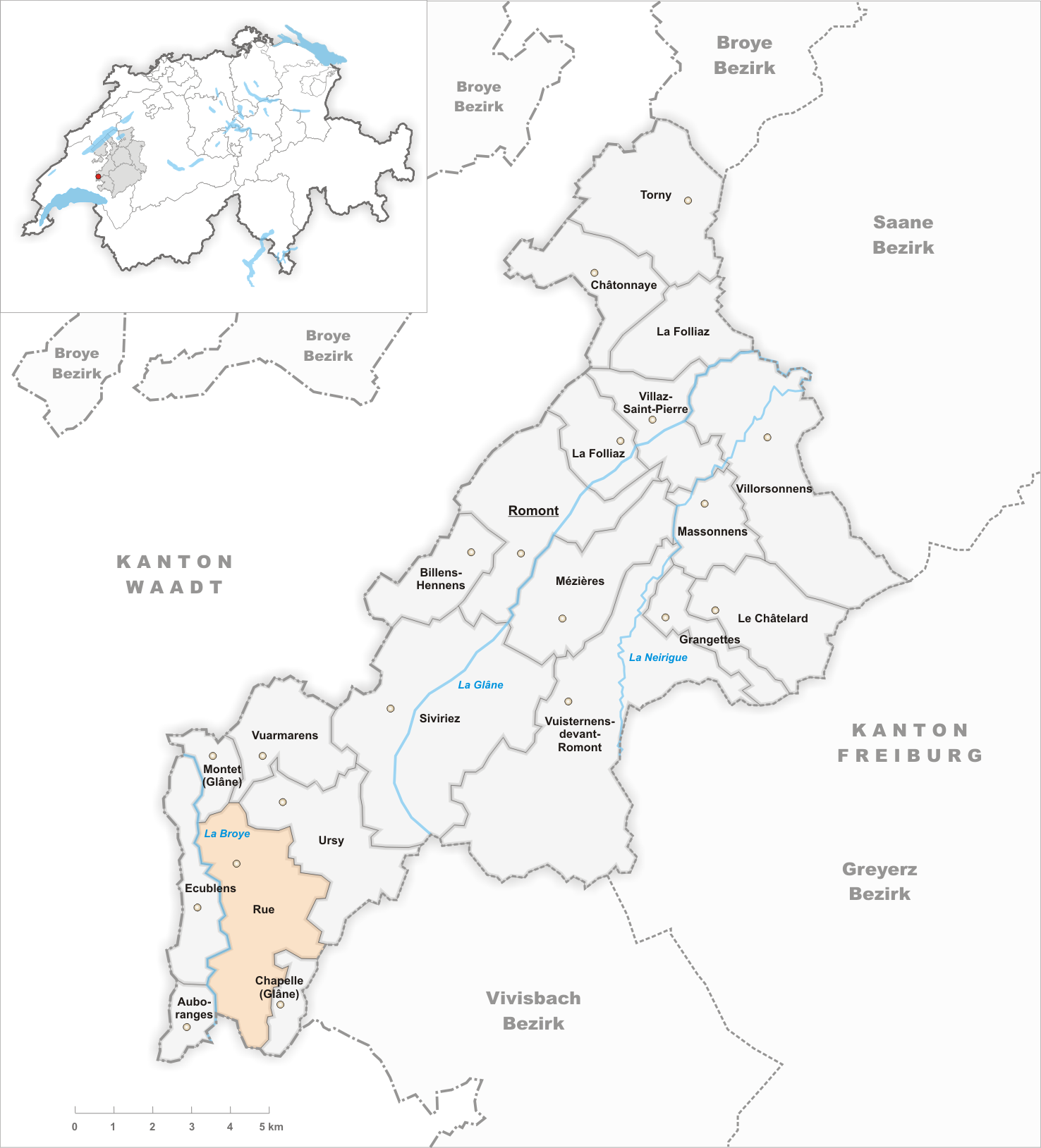 Municipality Rue